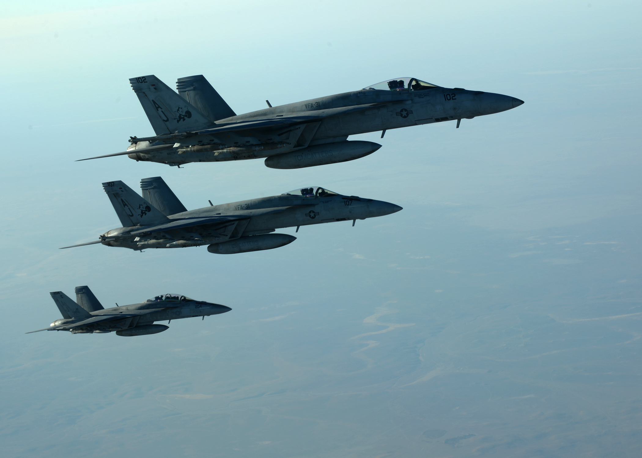 A formation of U.S. Navy F-18E Super Hornet aircraft leaves after receiving fuel from an Air Force KC-135 Stratotanker aircraft over northern Iraq after conducting air strikes in Syria Sept. 23, 2014. These aircraft were part of a large coalition strike package that was the first to strike Islamic State of Iraq and the Levant (ISIL) targets in Syria. President Barack Obama authorized humanitarian aid deliveries to Iraq as well as targeted airstrikes to protect U.S. personnel from extremists known as ISIL. U.S. Central Command directed the operations. (DoD photo by Staff Sgt. Shawn Nickel, U.S. Air Force/Released)